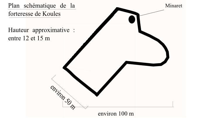 Map of the koules fortress (schematic)